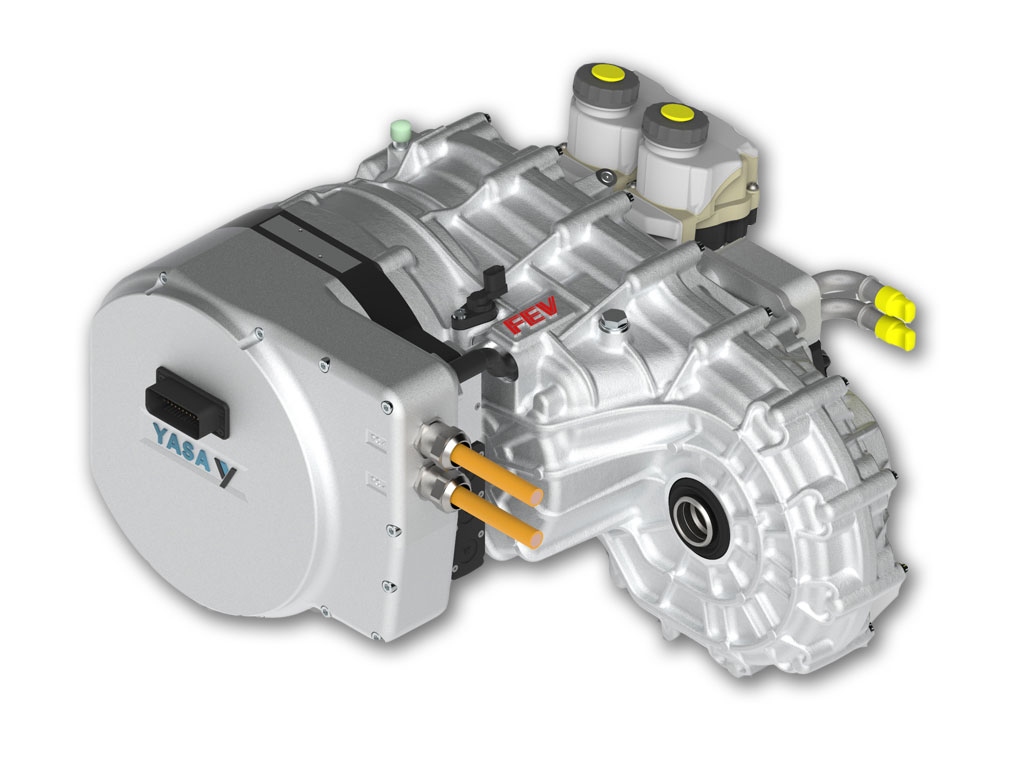 2-speed electric drive unit featuring up to 6000Nm and 300kW peak at wheels from 85kg. Integrated motor, motor controller, clutches, gears, actuation and cooling circuit